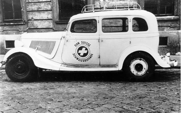 Ford Model 40B Fordor Sedan (1934) of the Swiss Donation Team in Vienna